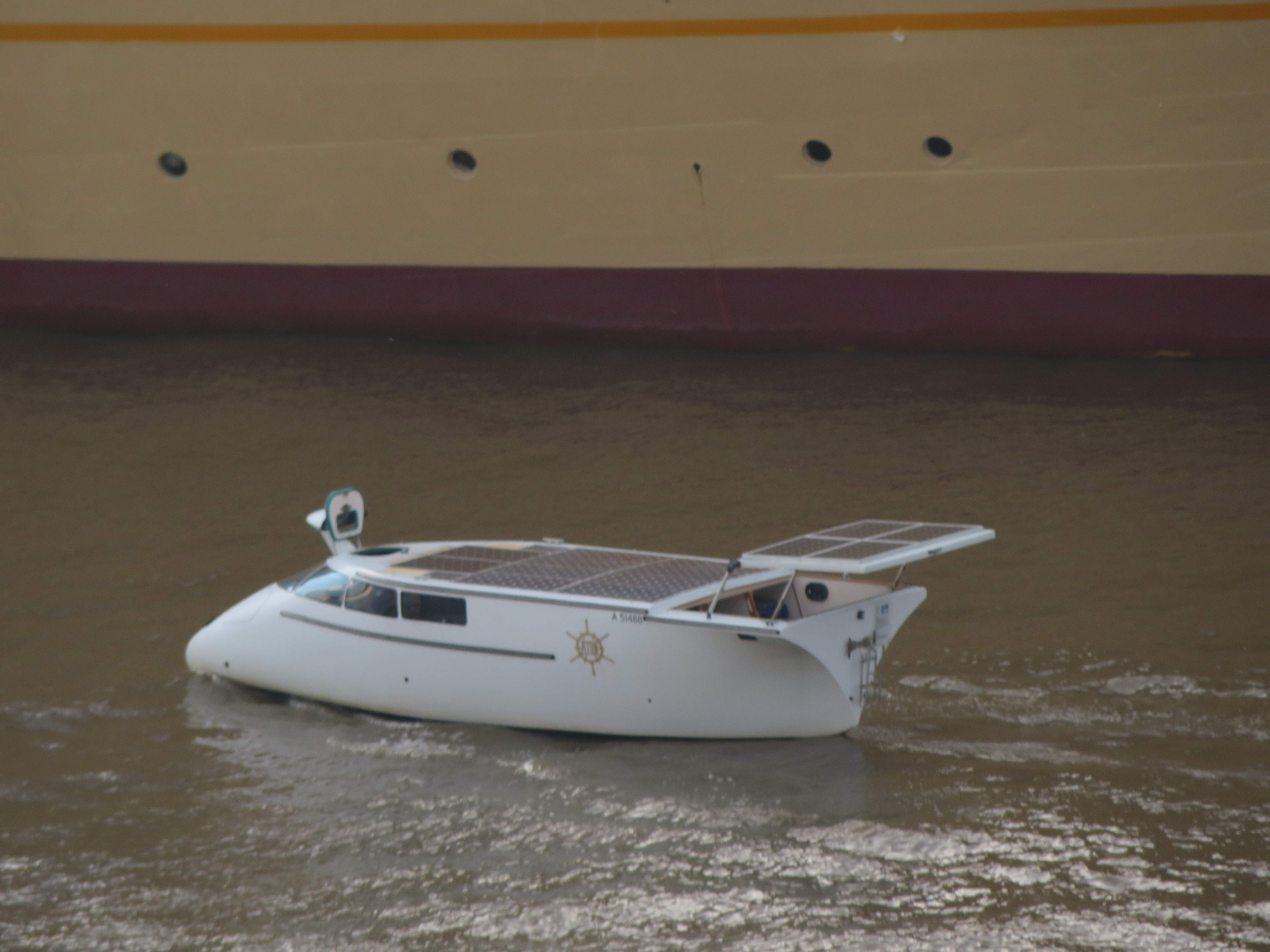 Solar powered boat